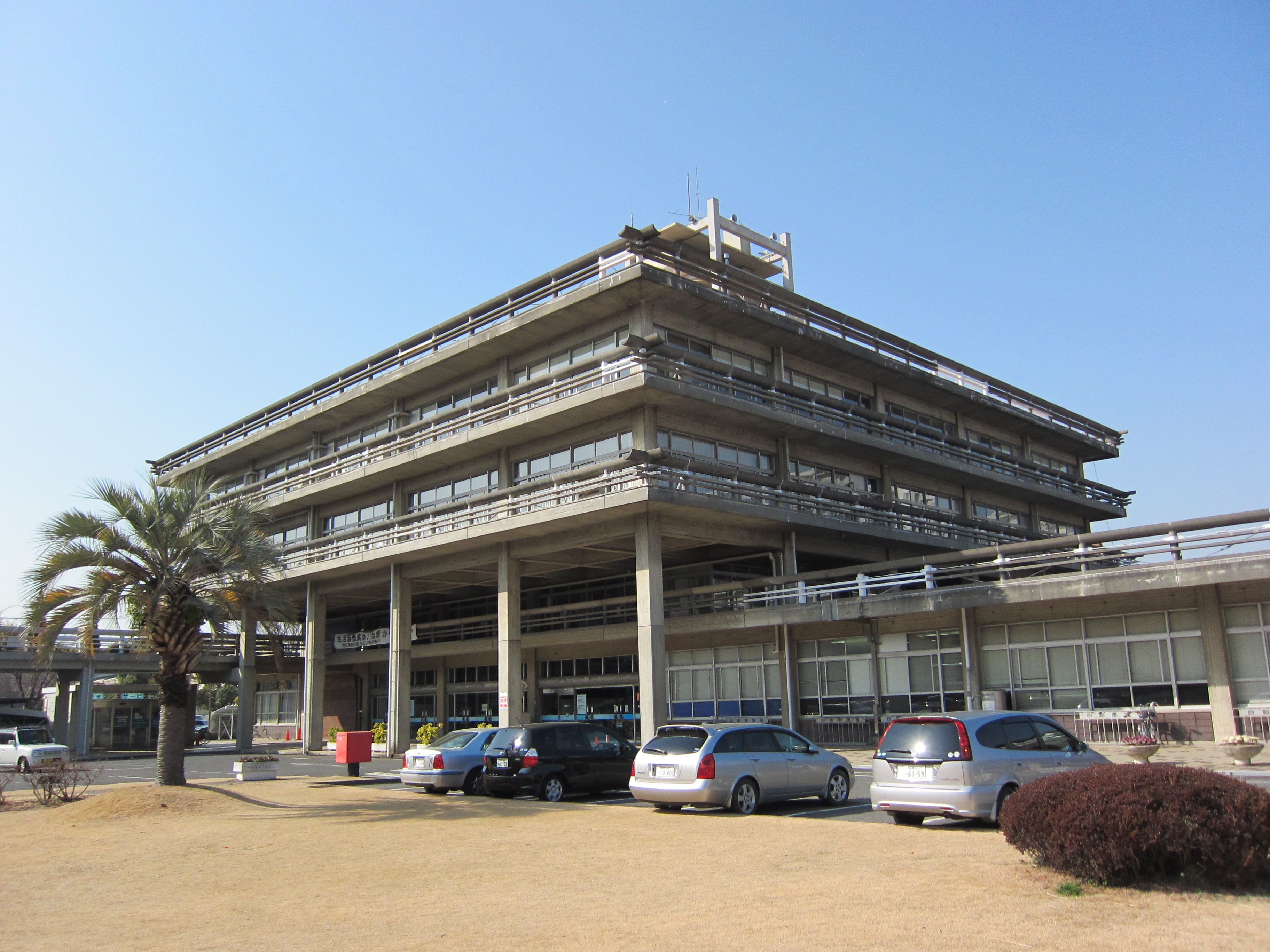 Hiratsuka City Hall